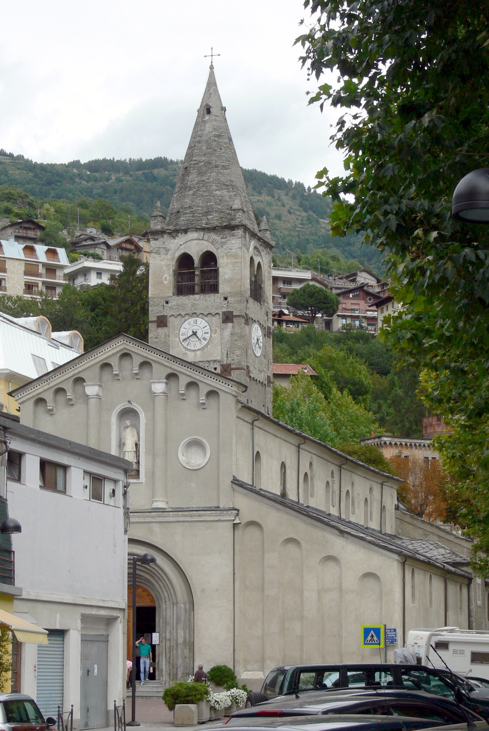 Saint-Vincent ( Aosta Valley ). Saint Vincent parish church.